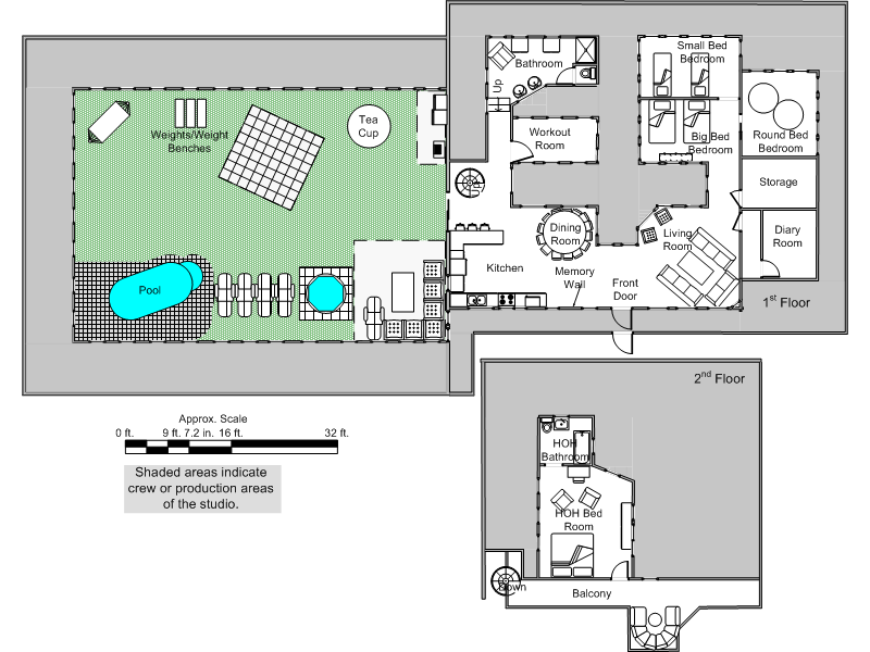 My own work of the Big Brother 8 (US) floor plan, based on CBS Studio 18 floor plan available for download from their website, video from the show/feeds and photos from BB8's official website.